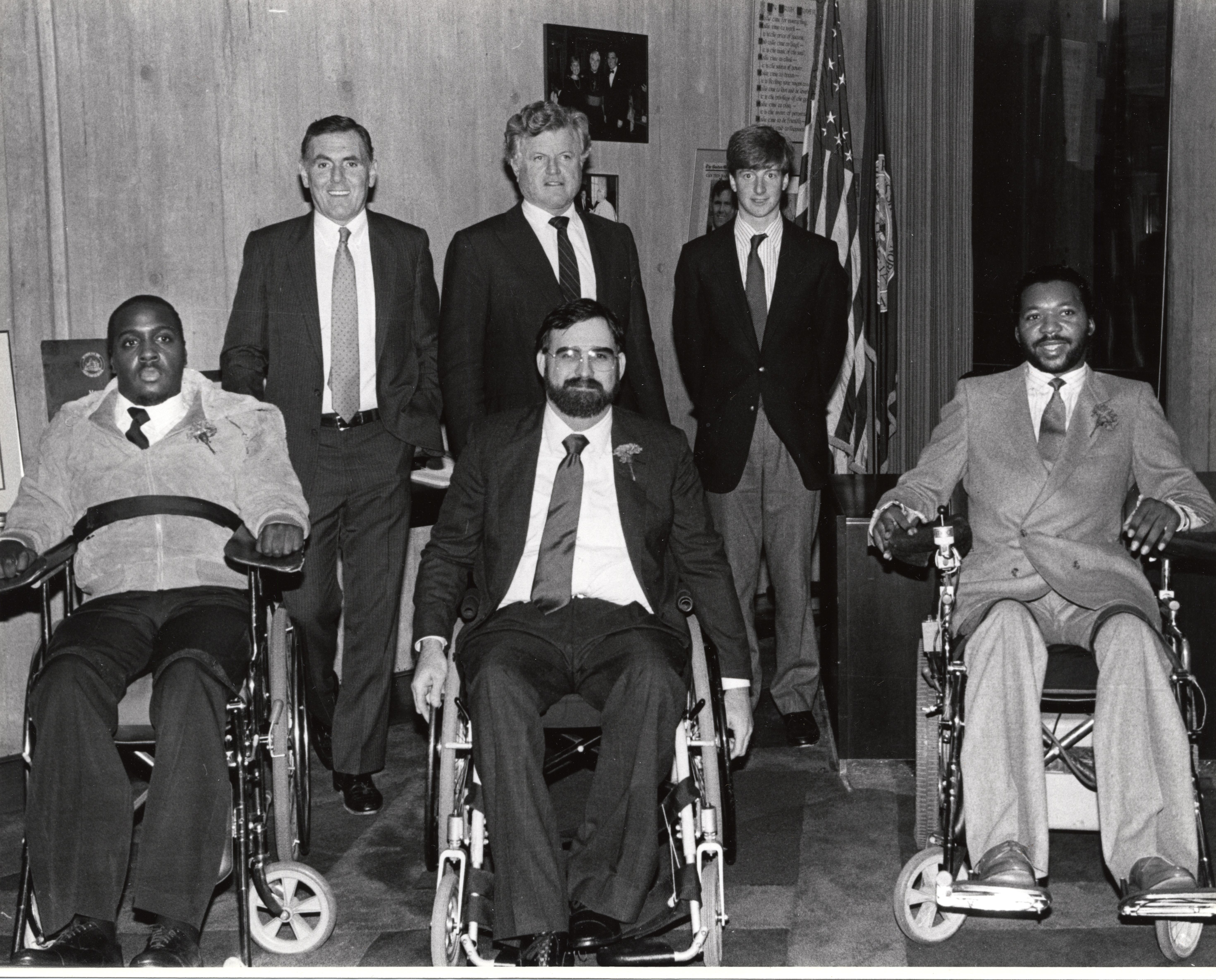 Title: Back row Mayor Raymond L. Flynn, Senator Edward M. Kennedy and Patrick Kennedy, Front row Darryl Williams, Director of Handicapped Affairs Commission Charles Sabatier and Darryl Stingley Creator: Mayor's Office - City Photographer Date: 1985 Source: Mayor Raymond L. Flynn records, Collection #0246.001 File name: RF_0243 Rights: Copyright City of Boston Citation: Mayor Raymond L. Flynn records, Collection #0246.001, City of Boston Archives, Boston